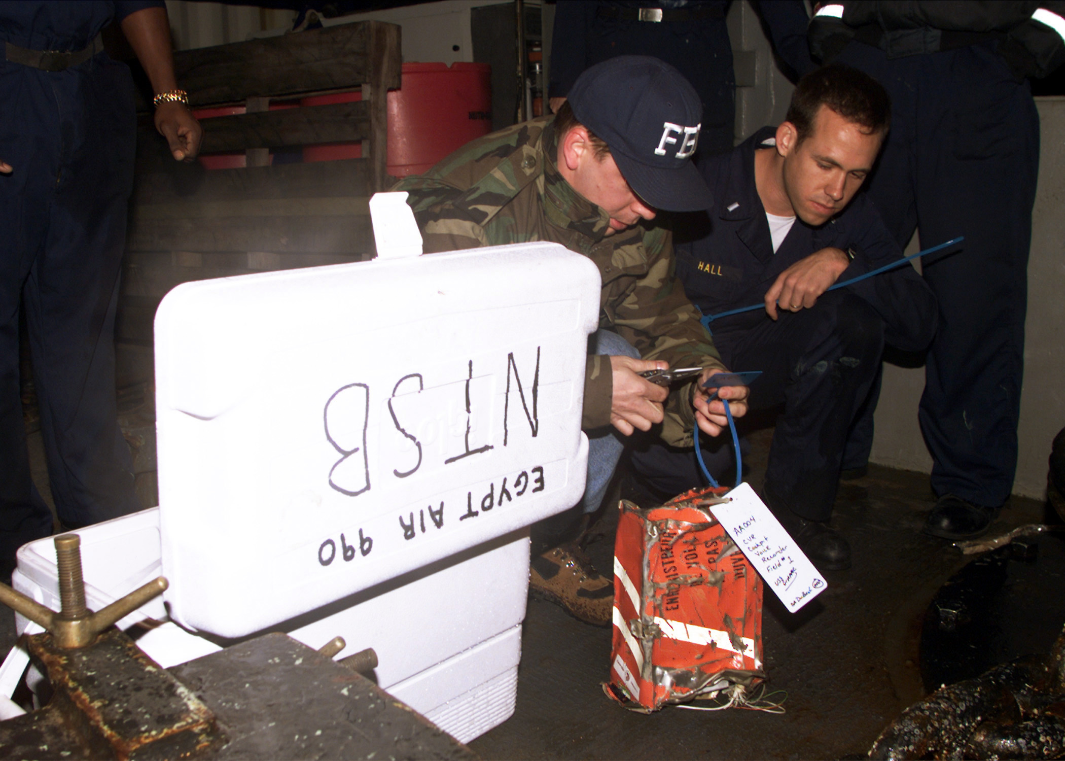 U.S. Navy Lt. j.g. Jason S. Hall (right) watches as FBI Agent Duback (left) tags the cockpit voice recorder from EgyptAir Flight 990 on the deck of the USS Grapple (ARS 53) at the crash site.